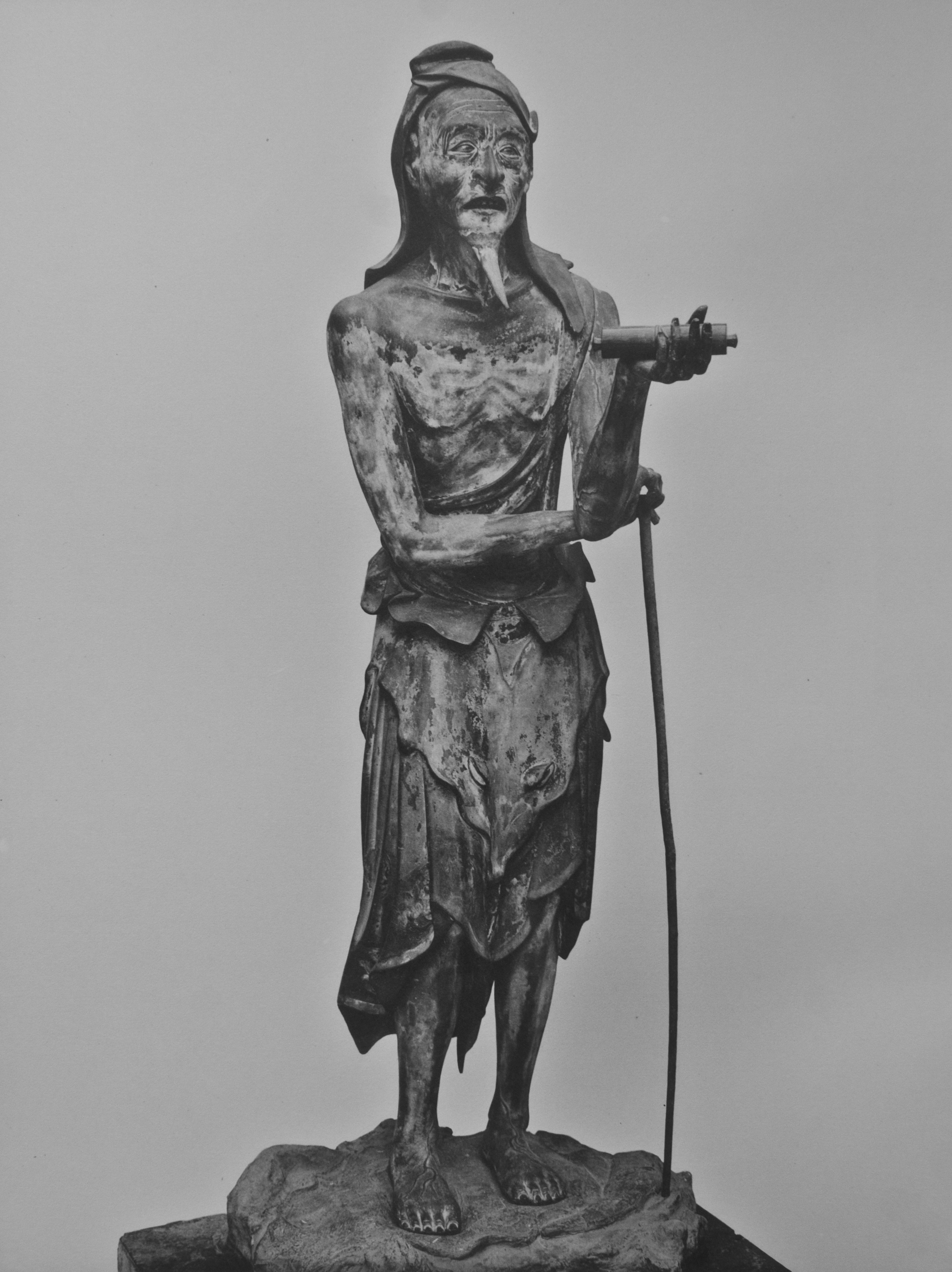 Sanjusangendo, Kyoto, Japan